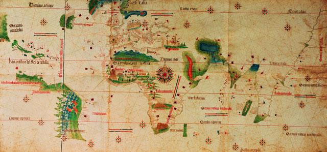 Cantino planisphere, map of XV Century.